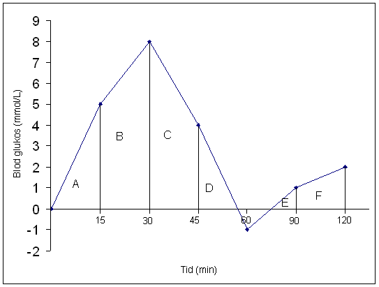 curve describing the rise of blood sugar after meals